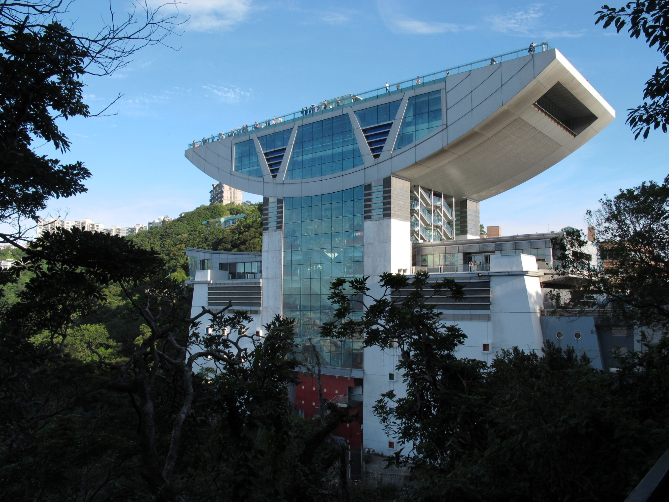 The Peak Tower in 2011